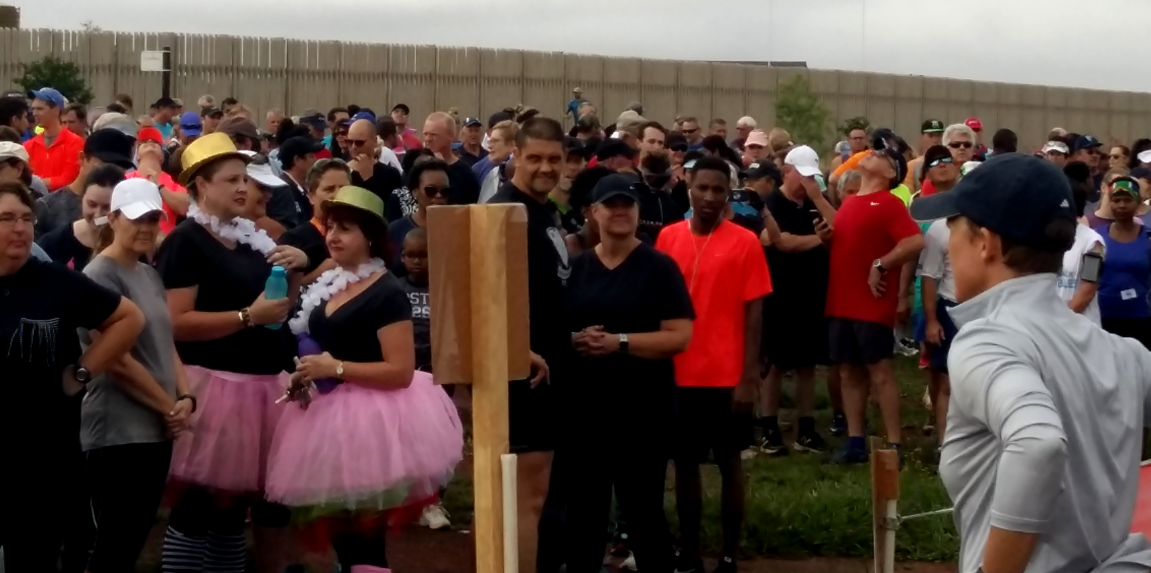 Runners at Parkrun (Midstream, Gauteng - South Africa) on 16 February 2019. 100 Parkrun anniversary at Midstream.